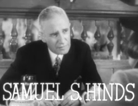 Screenshot of Samuel S. Hinds from the trailer for the film Stage Door.